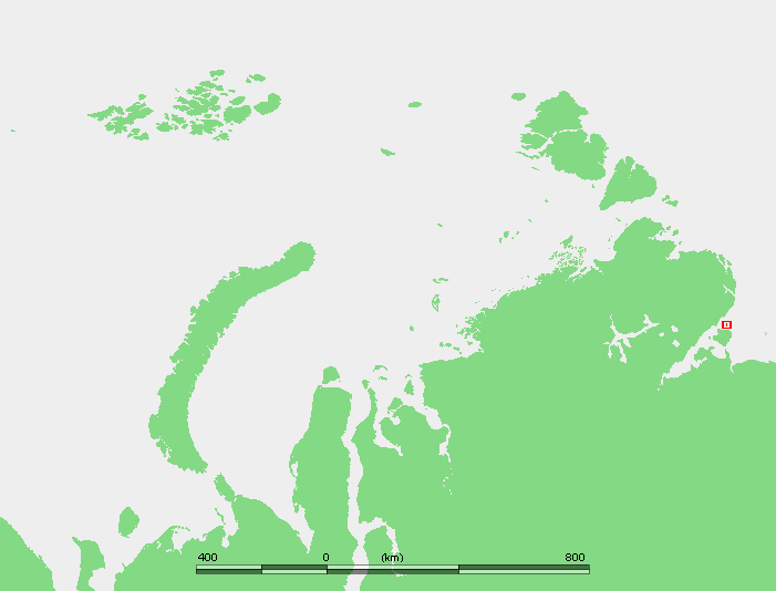 Preobrazheniya Island